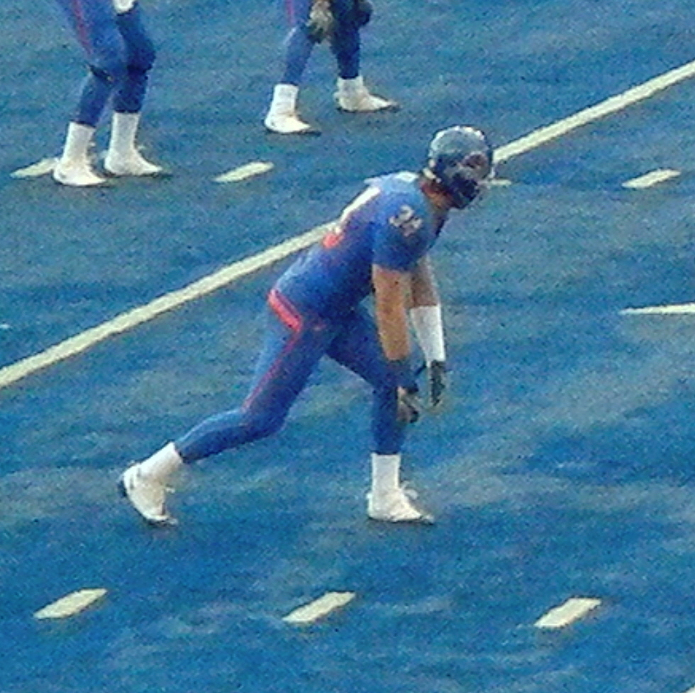 Boise State wide receiver Kirby Moore during a game vs San Jose State on October 31, 2009 in Boise, ID.